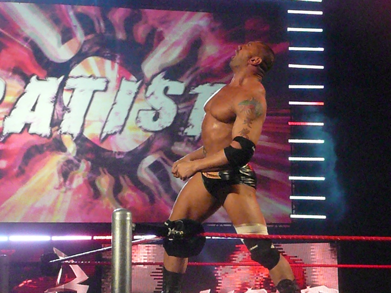 Taken at the Manchester Evening News arena, 10th November 2008 at the WWE Raw taping.